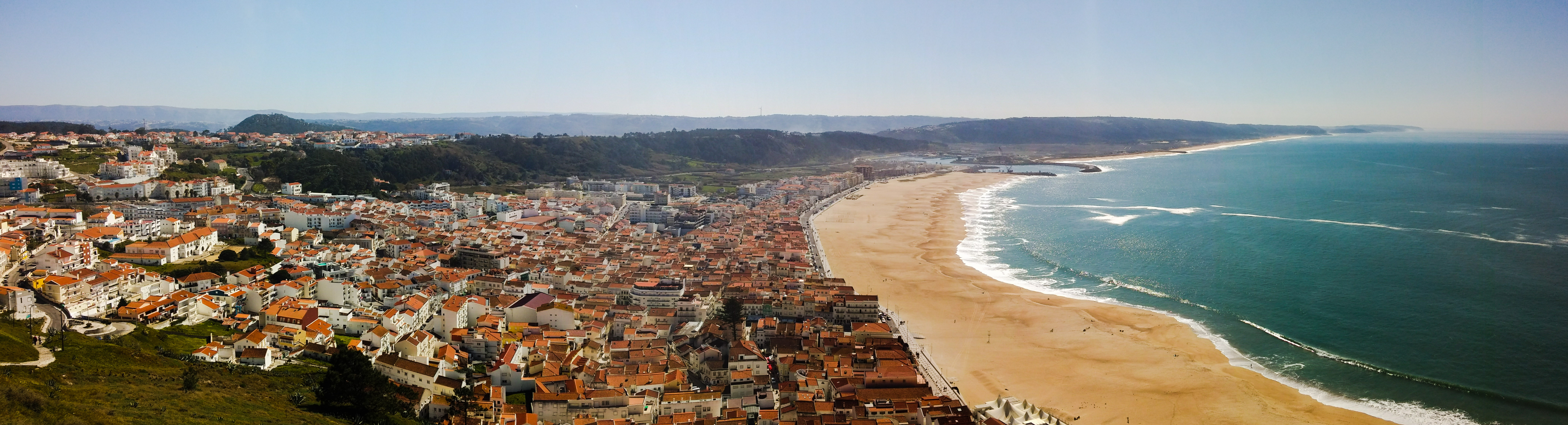 City of Nazare with the beach